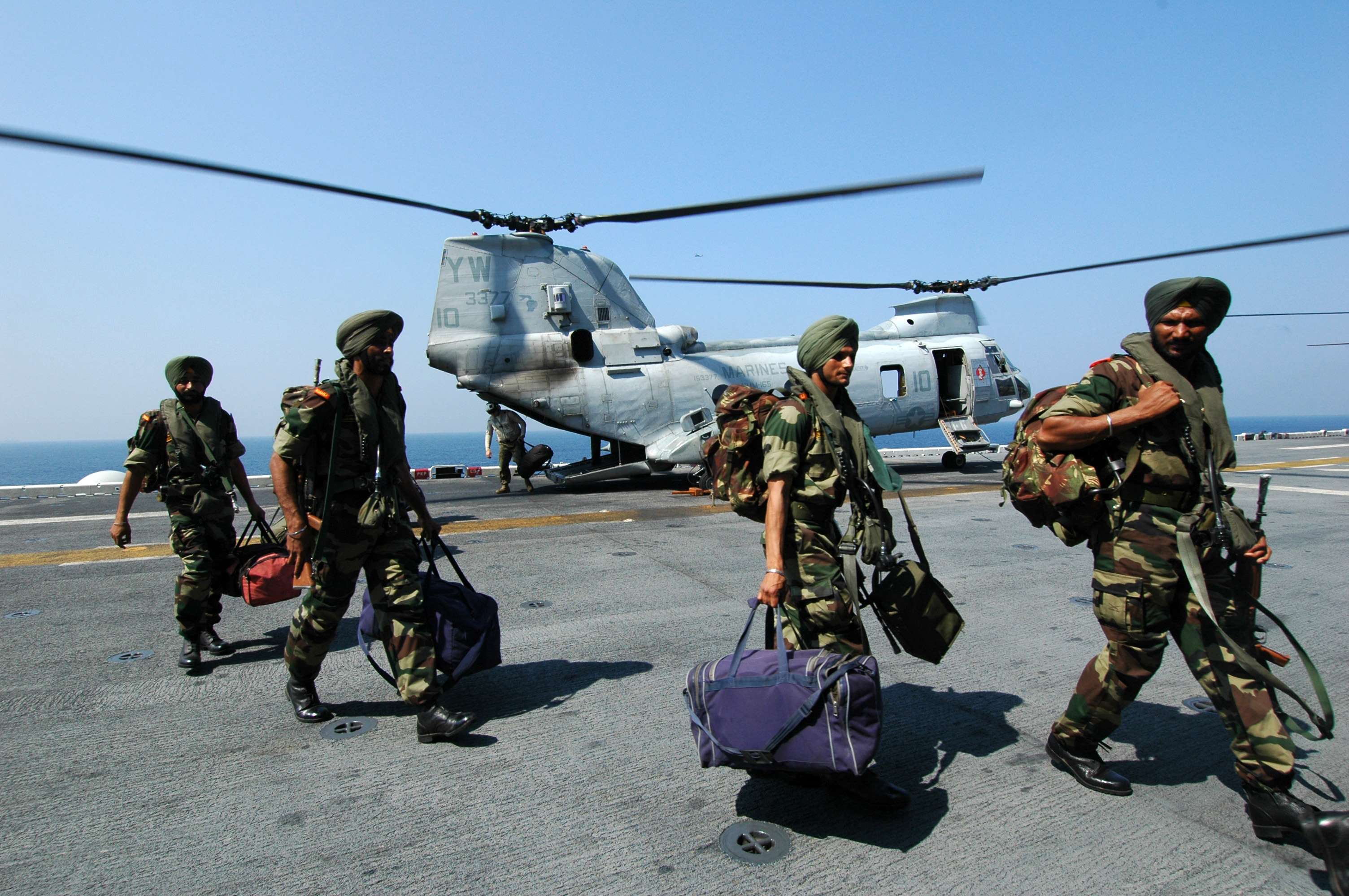 Mumbai, India (Oct. 25, 2006) - Indian Soldiers assigned to the 9th Battalion of the Sikh Infantry arrive aboard USS Boxer (LHD 4) to participate in Malabar 2006. Malabar 2006 is a multinational exercise between the U.S., Indian and Canadian armed forces to increase interoperability between the three nations and support international security cooperation missions. U.S. Navy photo by Mass Communication Specialist Seaman Joshua Martin (RELEASED)